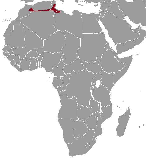 Ctenodactylus gundi range map